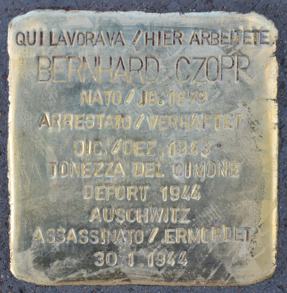 Stumbling Stone of Bernhard Czopp, placed in Bozen (South Tyrol)